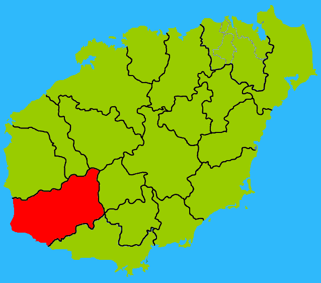 Hainan subdivisions - Ledong Li Autonomous County